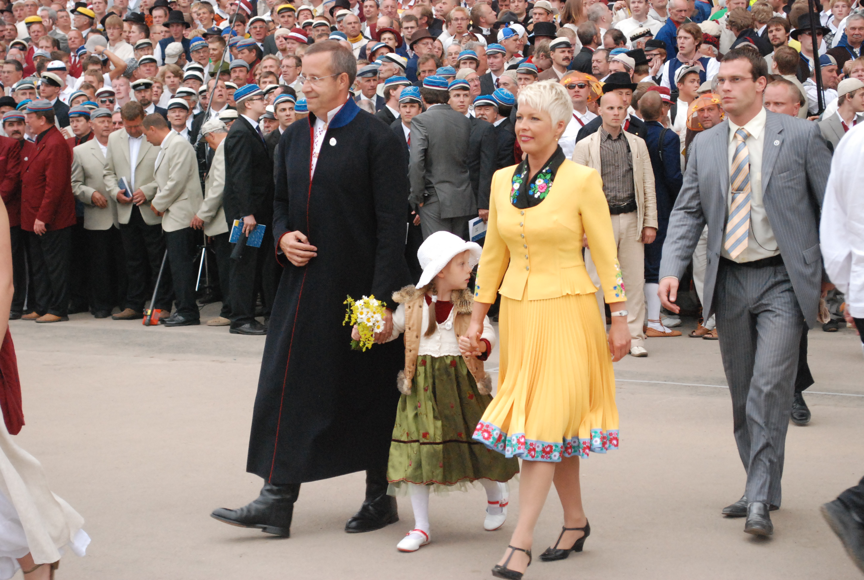 Estonian President Toomas Hendrik Ilves with his wife Evelin Ilves and daughter Kadri-Keiu Ilves at XXV Estonian Song Celebration in 2009.